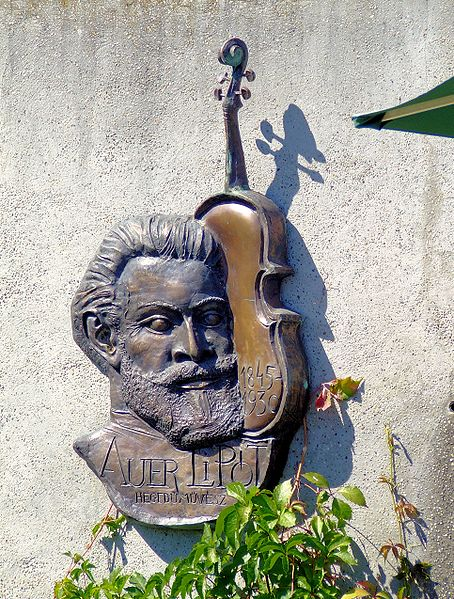 Auer.